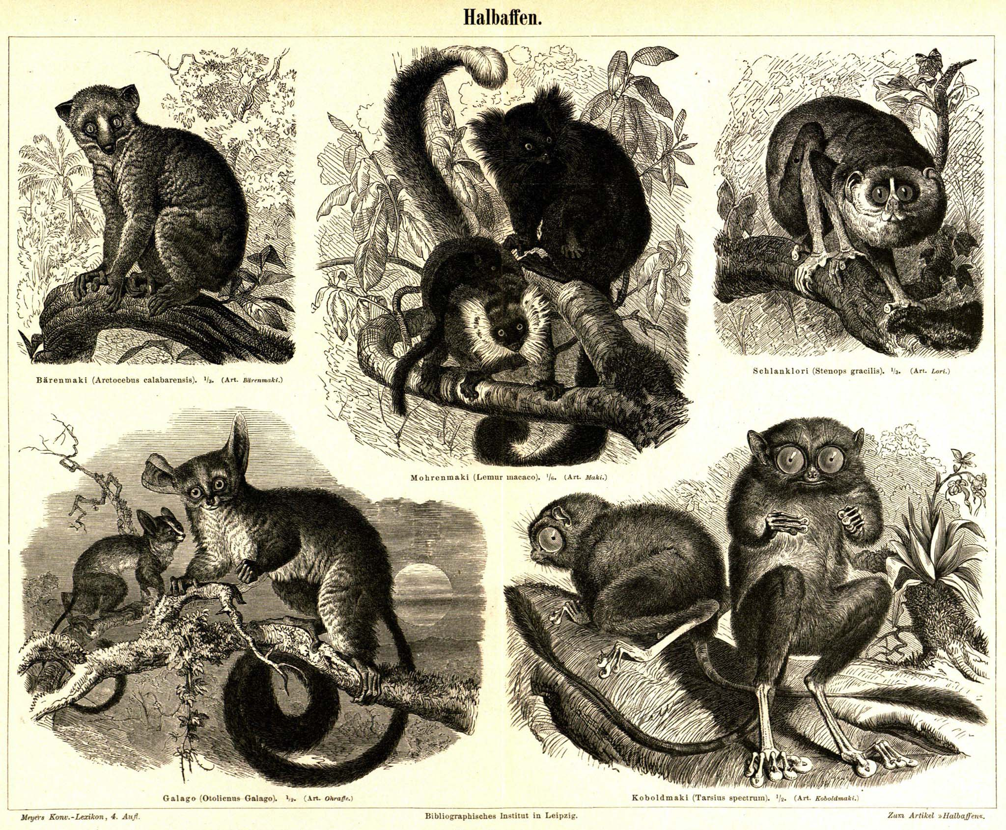 This is page 8 of 1028, in Volume 8 of the German illustrated encyclopedia Meyers Konversationslexikon, 4th edition (1885-1890), fraktur font.